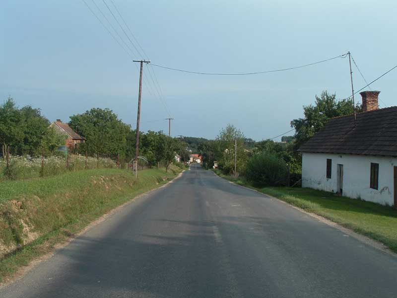 Kondorfa, Vas County, Hungary